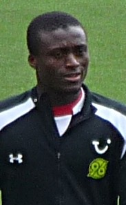 Constant Djakpa